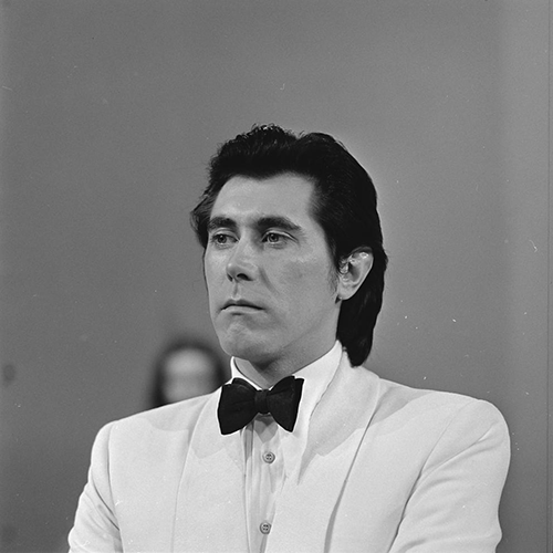 Bryan Ferry (Roxy Music) in AVRO's TopPop (Dutch television show) in 1973